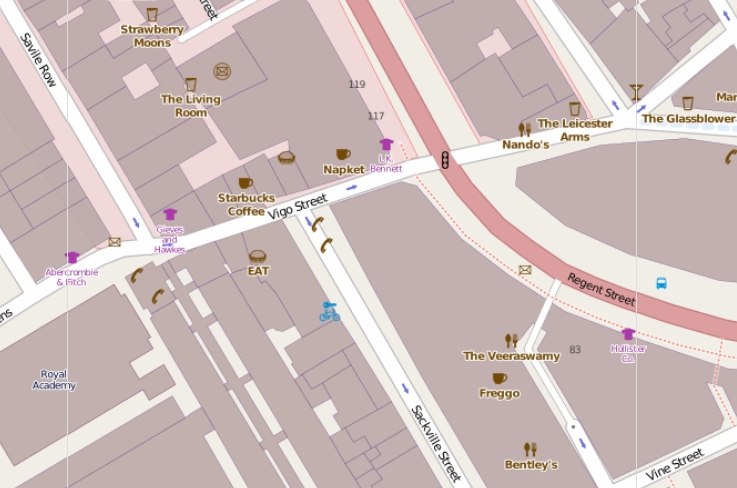 Vigo Street London Open Street Map.